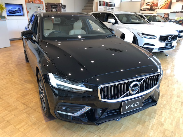 VOLVO V60 T5 INSCRIPTION FRONT 2018(JPN).Photographed in Japan.